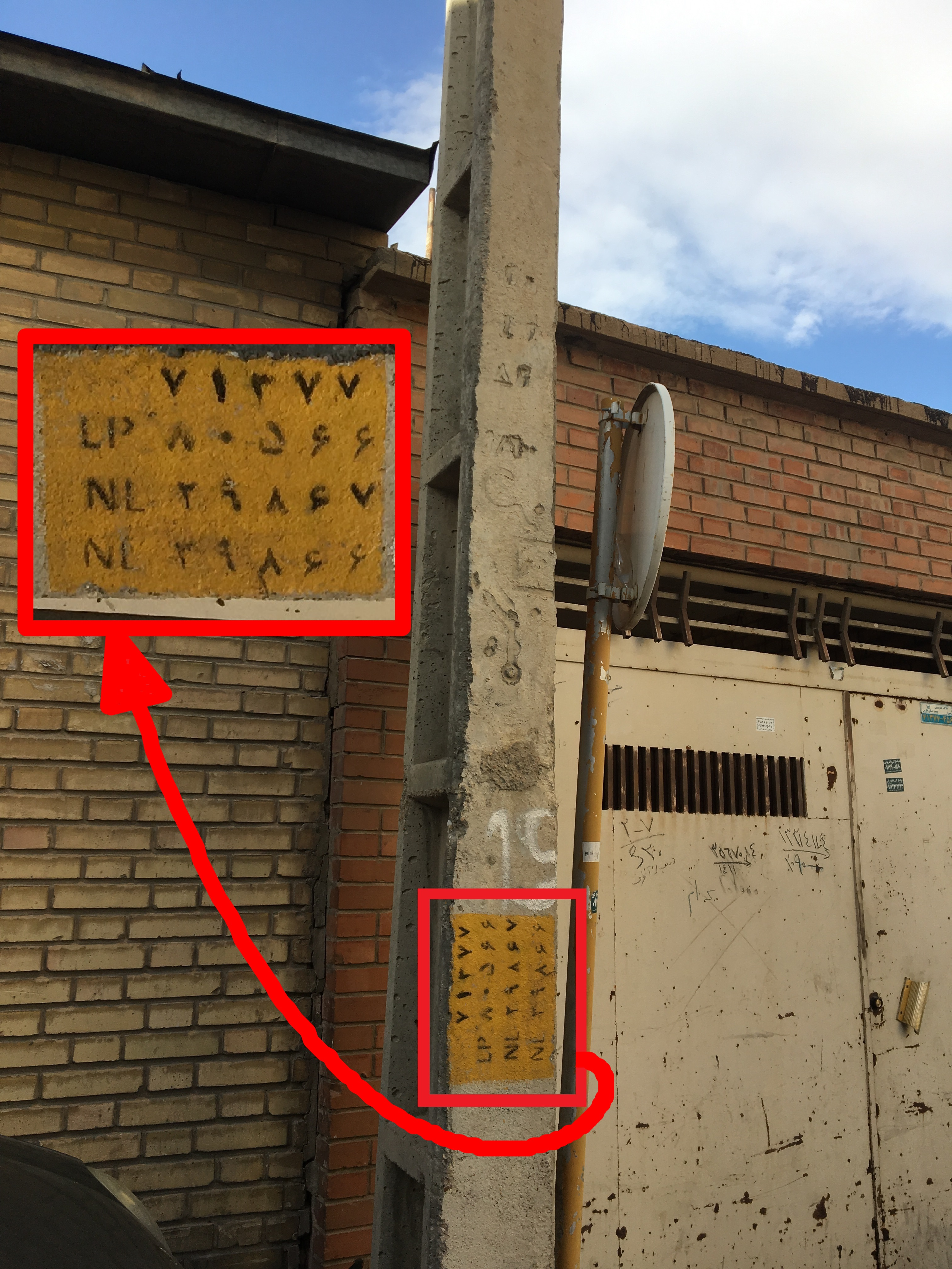 An example of using Power Distribution Equipment Identification label to identify a LV pole which consists of a double circuit LV network. Power Distribution Equipment Identification label of pole is 71377LP80566 Power Distribution Equipment Identification label of LV insulators for first circuit is 71377NL29866 Power Distribution Equipment Identification label of LV insulators for second circuit is 71377NL29867